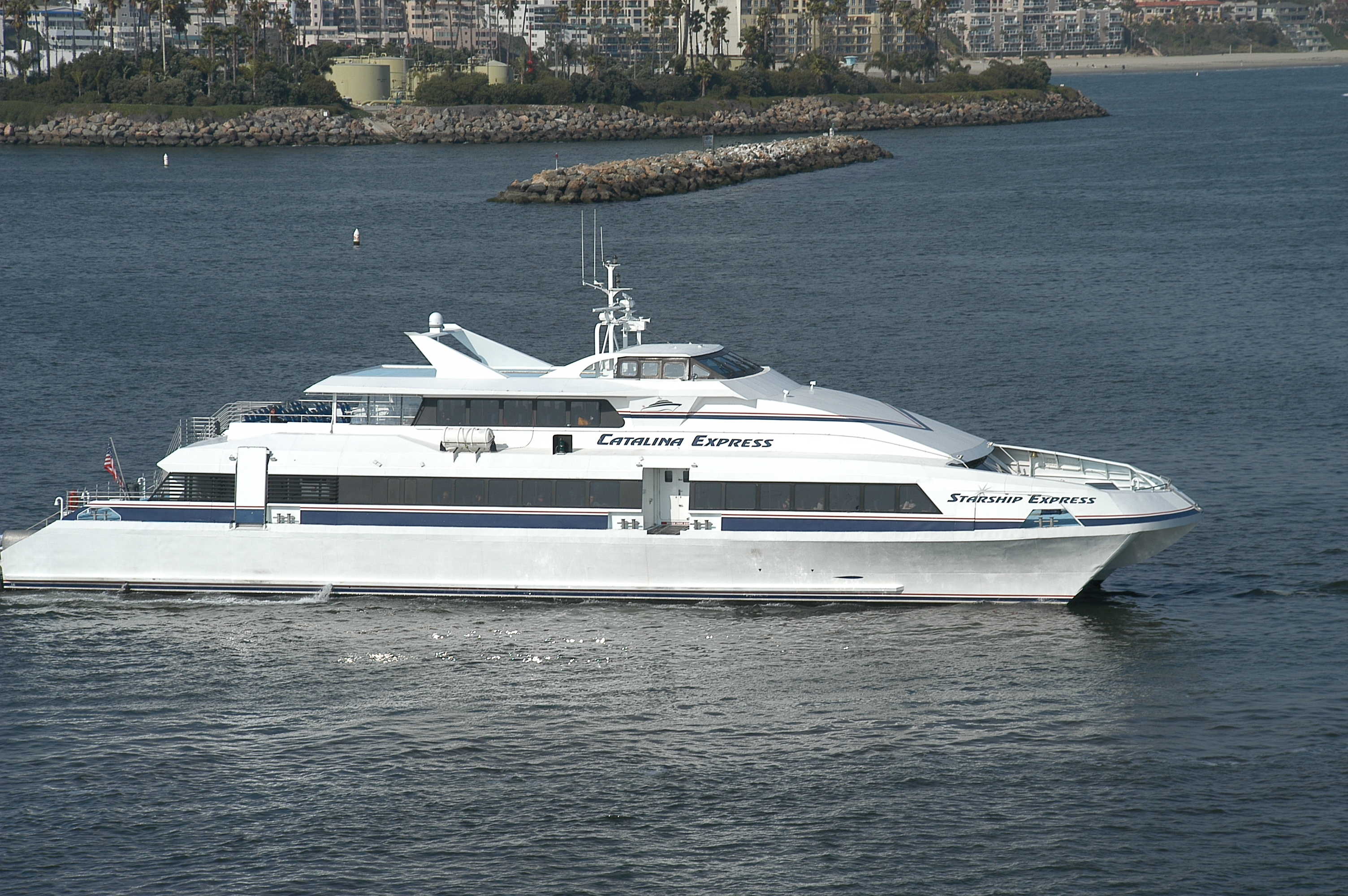 Taken from the back of the Carnival Pride prior to sailing to Mexico for a 7 day cruise.